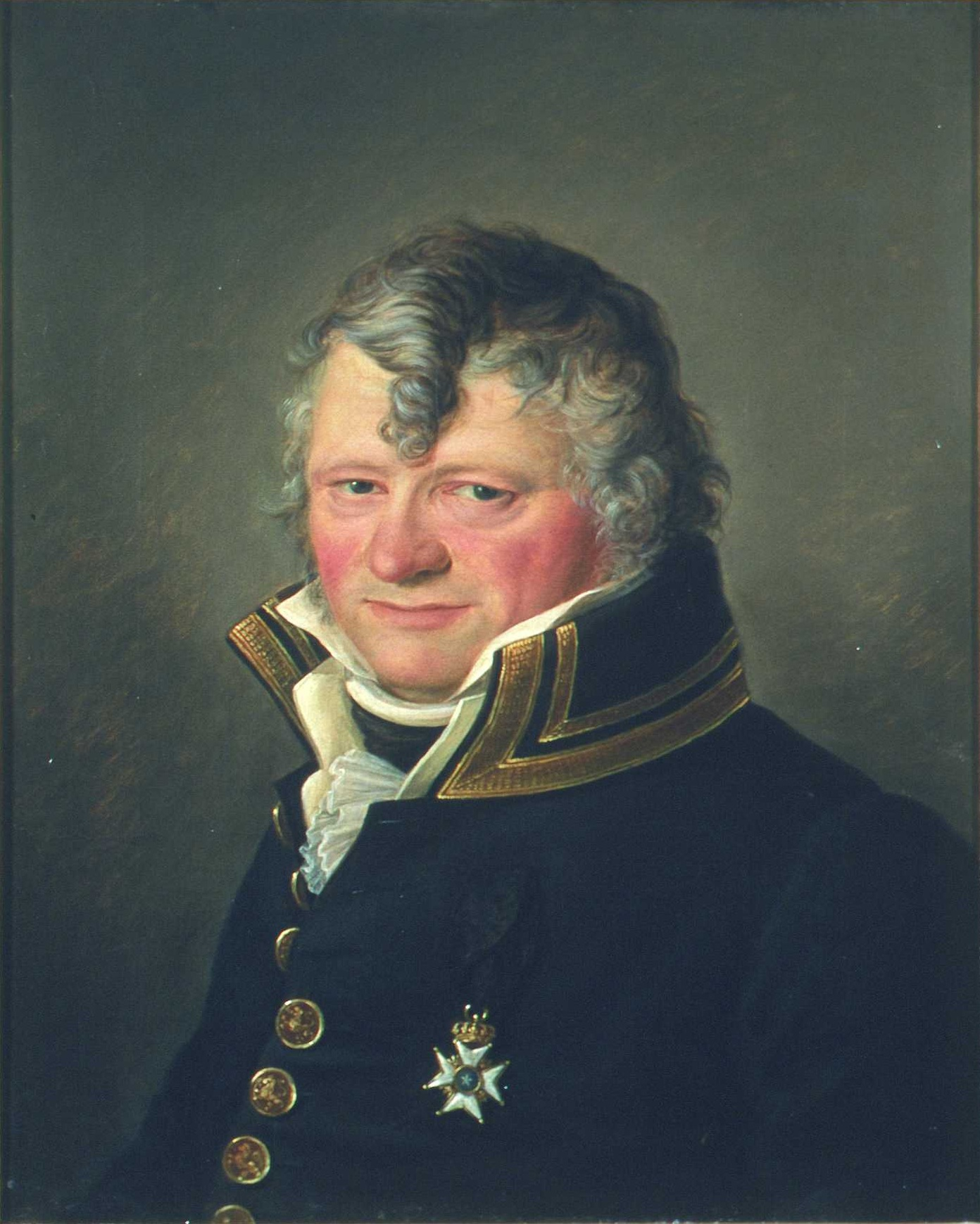 Anders Rambech (1767–1836), Norwegian magistrate and politician. Represented Søndre Trondhjems amt at the Norwegian Constituent Assembly in 1814, and was elected to the Parliament (Stortinget) in 1815–1817, 1818–1820, 1824–1826, 1827–1829 and 1830–1832